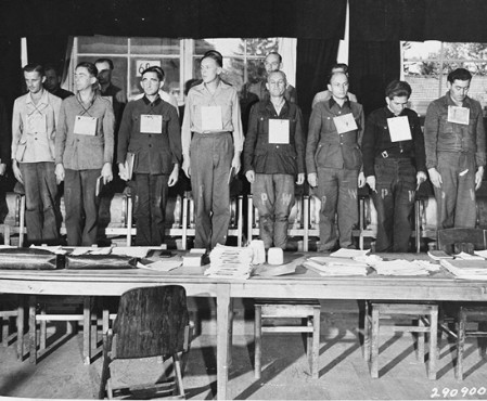 Sixteen of the nineteen defendants on trial for war crimes committed during the war at Dora-Mittelbau. Locale: Dachau, [Bavaria] Germany